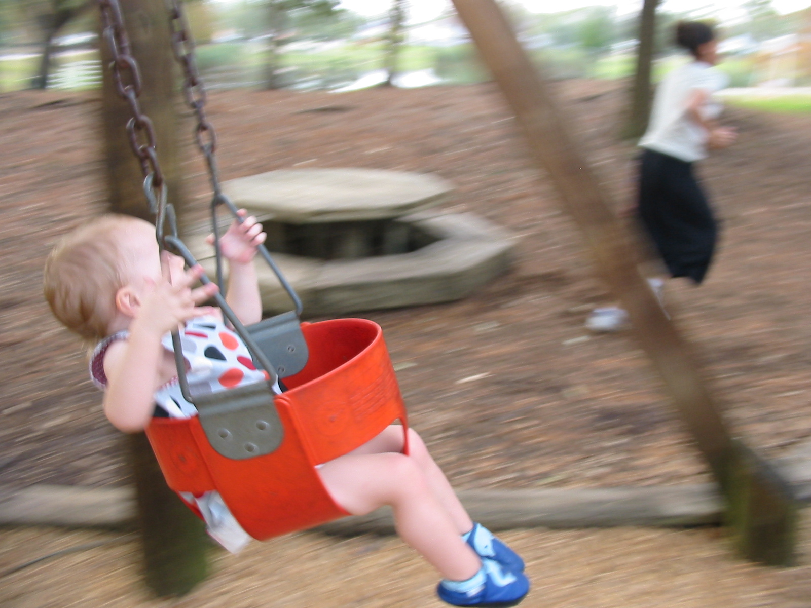 On a swing